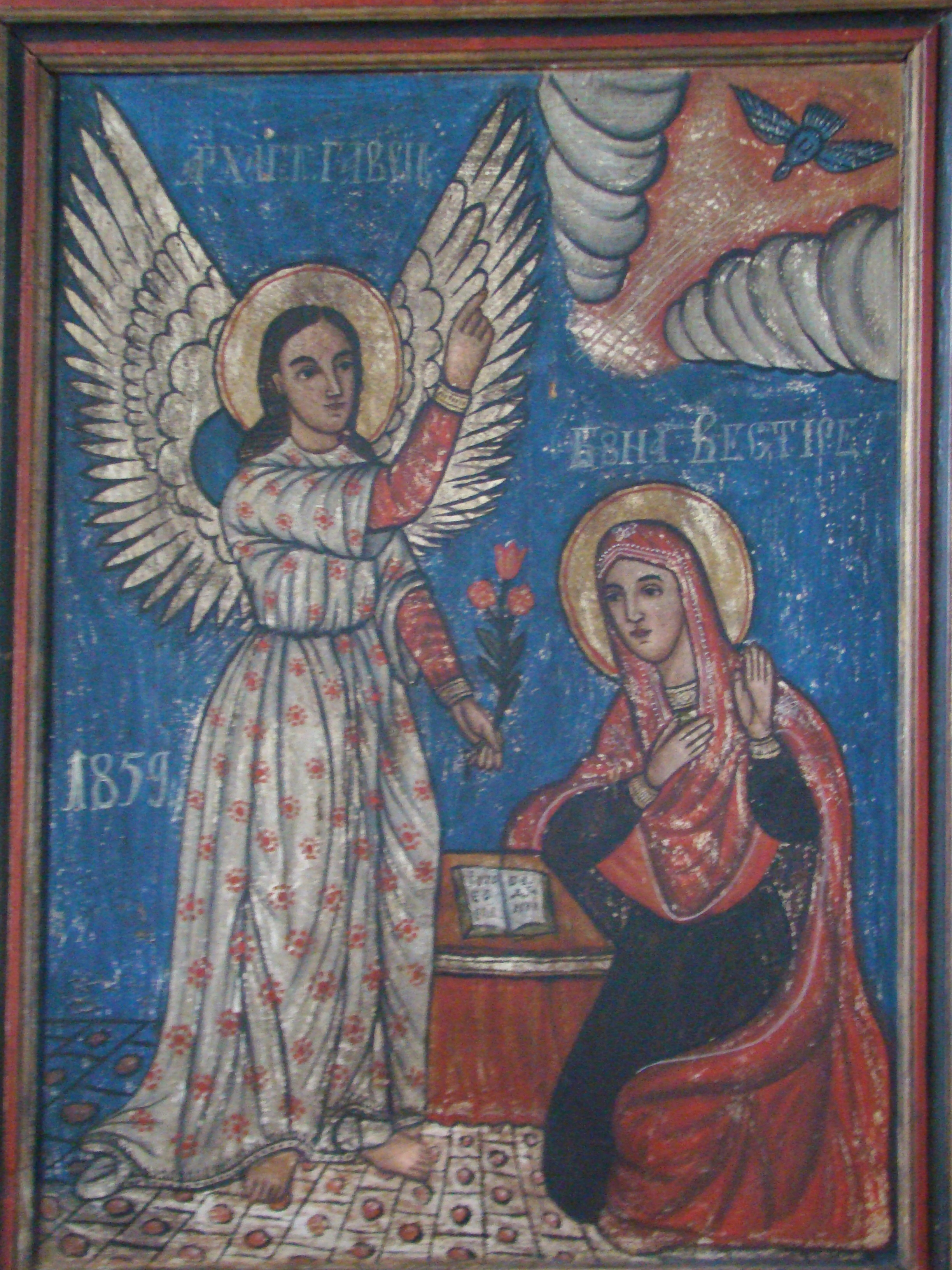 Church of the Annunciation in Ormindea, Hunedoara county, Romania